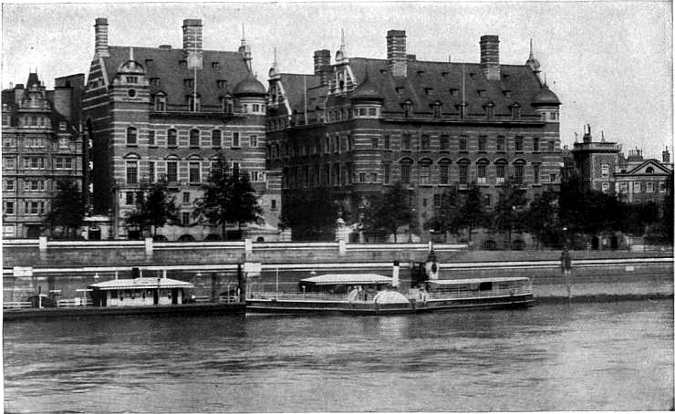 Photo, Emery Walker.Scotland Yard, London. (Shaw.)Illustration from 1911 Encyclopædia Britannica, article Architecture.